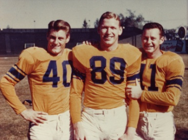 Photo of Bob Carey for biography page.